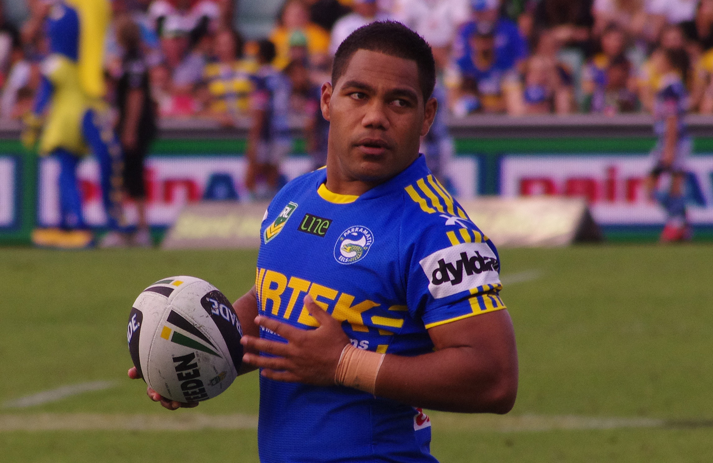 Chris Sandow